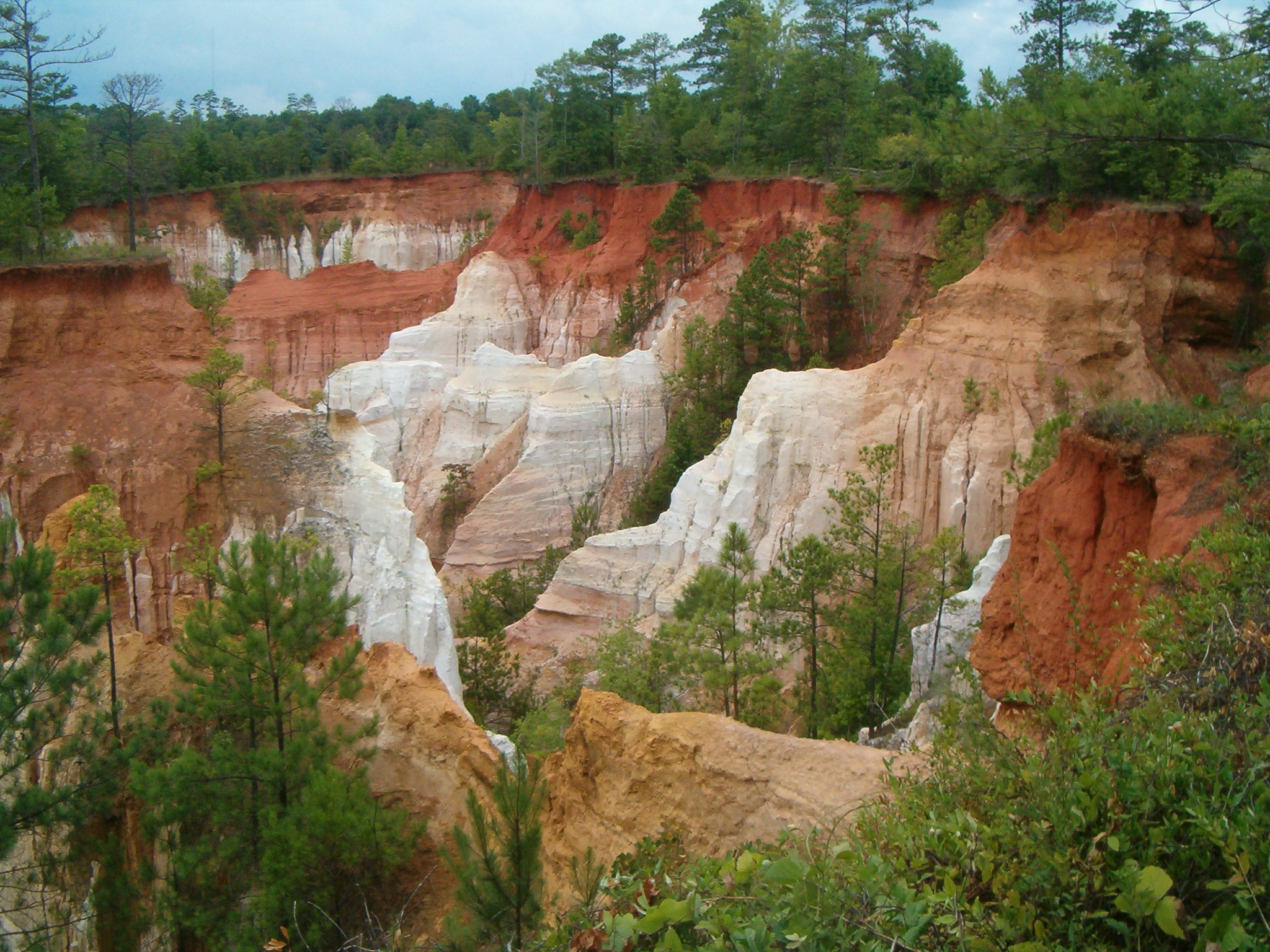 Photo of part of Providence Canyon from rim near entrance road.